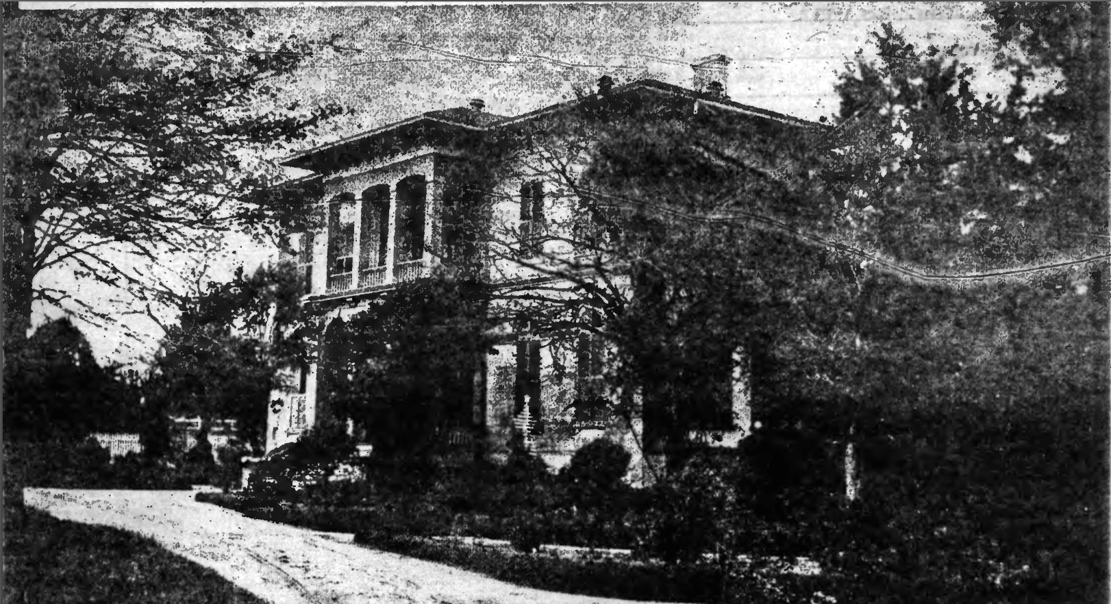 Hilton - a house in Columubus, Georgia, US, taken in 1897.